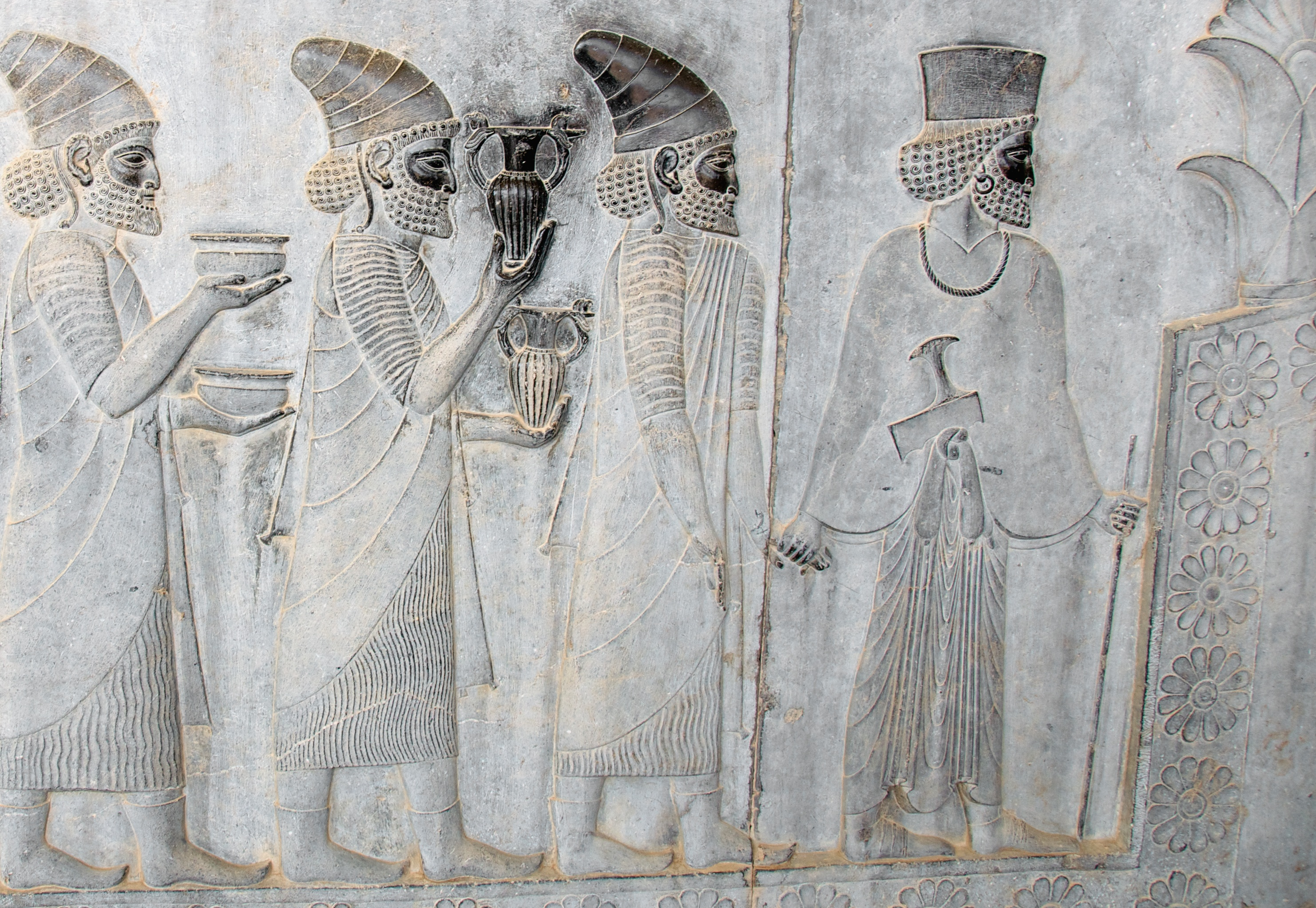 According to the Lonely Planet guide to Iran, "Most impressive of all, however, and among the most impressive historical sights in all of Iran, are the bas-reliefs of the Apadana Staircase on the eastern wall [of the Apadana Palace]." "The panels at the southern end [of the Apadana Staircase] are the most interesting, showing 23 delegations bringing their tributes to the Achaemenid king." "This rich record of the nations of the time ranges from the Ethiopians in the bottom left center, through a climbing pantheon of, among other peoples, Arabs, Thracians, Indians, Parthians and Cappadocians, up to the Elamites and Medians at the top right." Persepolis, Iran